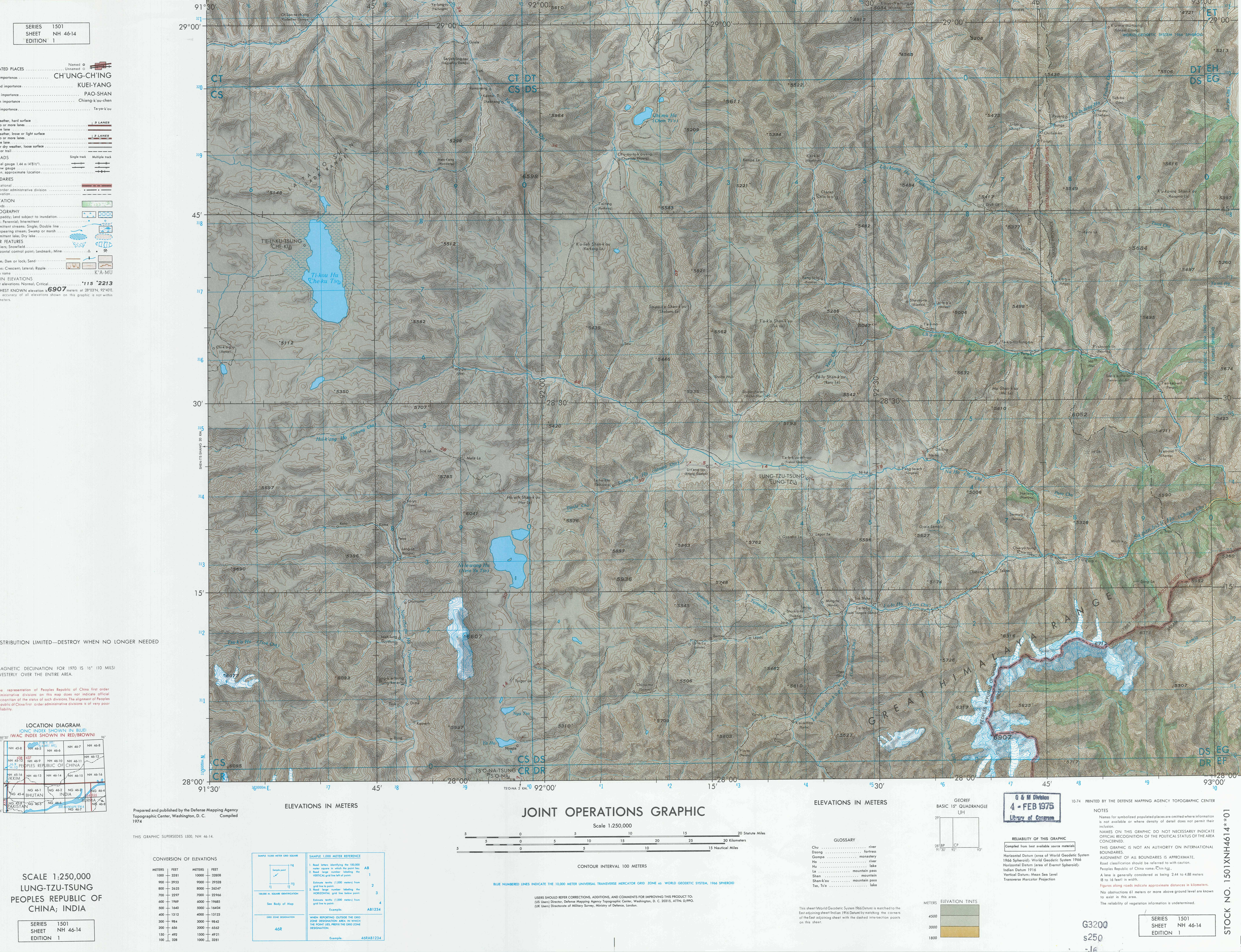 NH-46-14 Lungtzutsung China